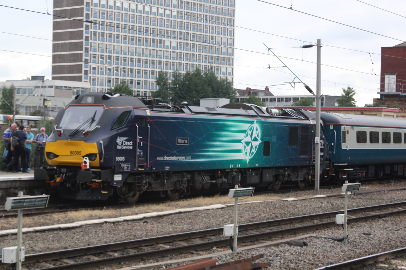 Direct Rail Servcies' electric locomotive 88005 at Crewe with a charter train returning to London Euston.